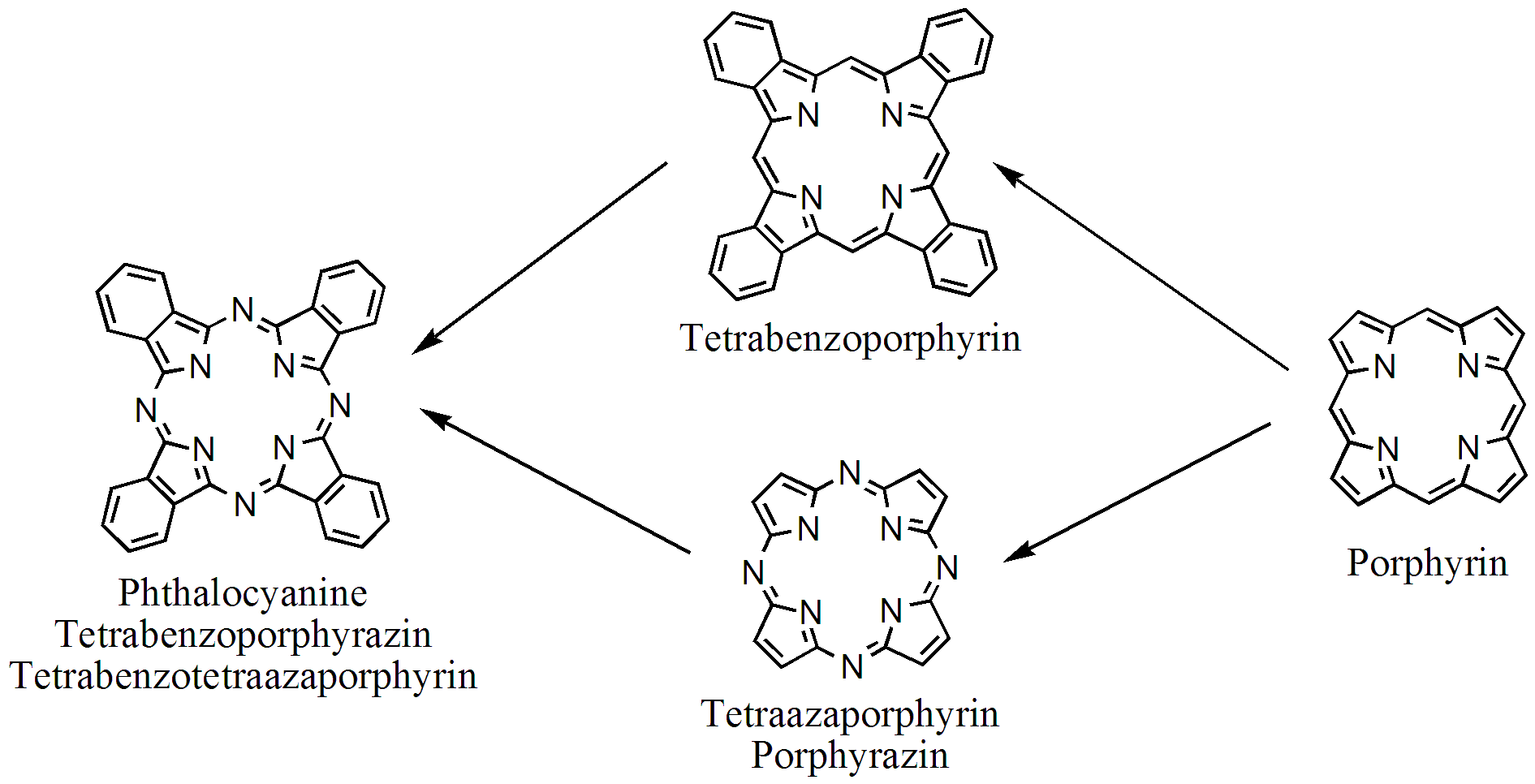 Relation Porphyrin Phthalocyanine